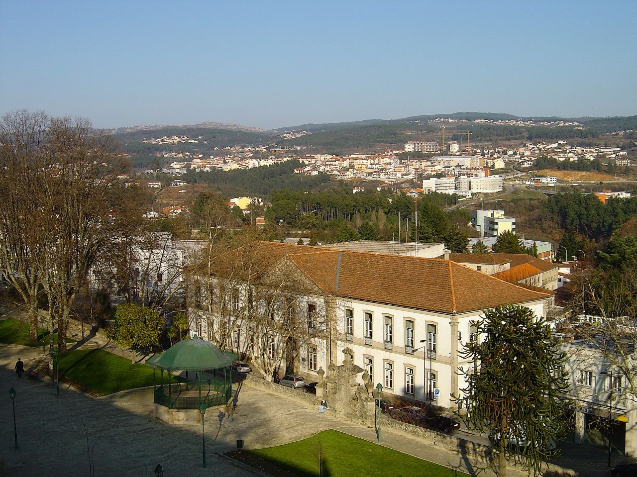 See where this picture was taken. [?]